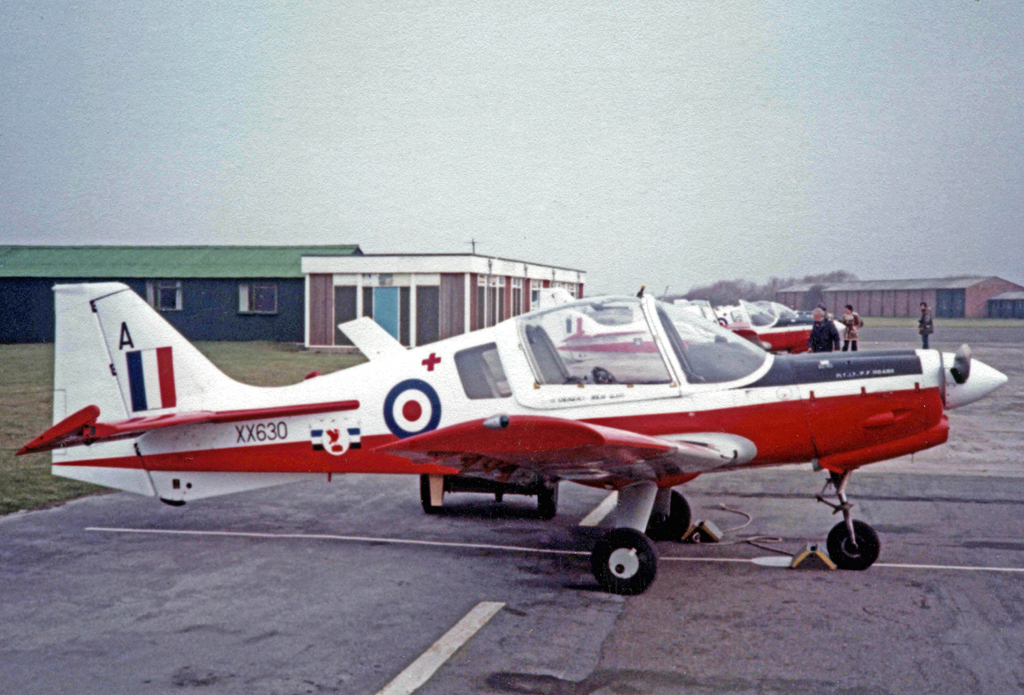 Scottish Aviation (Beagle) Bulldog T.1 XX630 of Liverpool University Air Squadron at RAF Woodvale in 1983